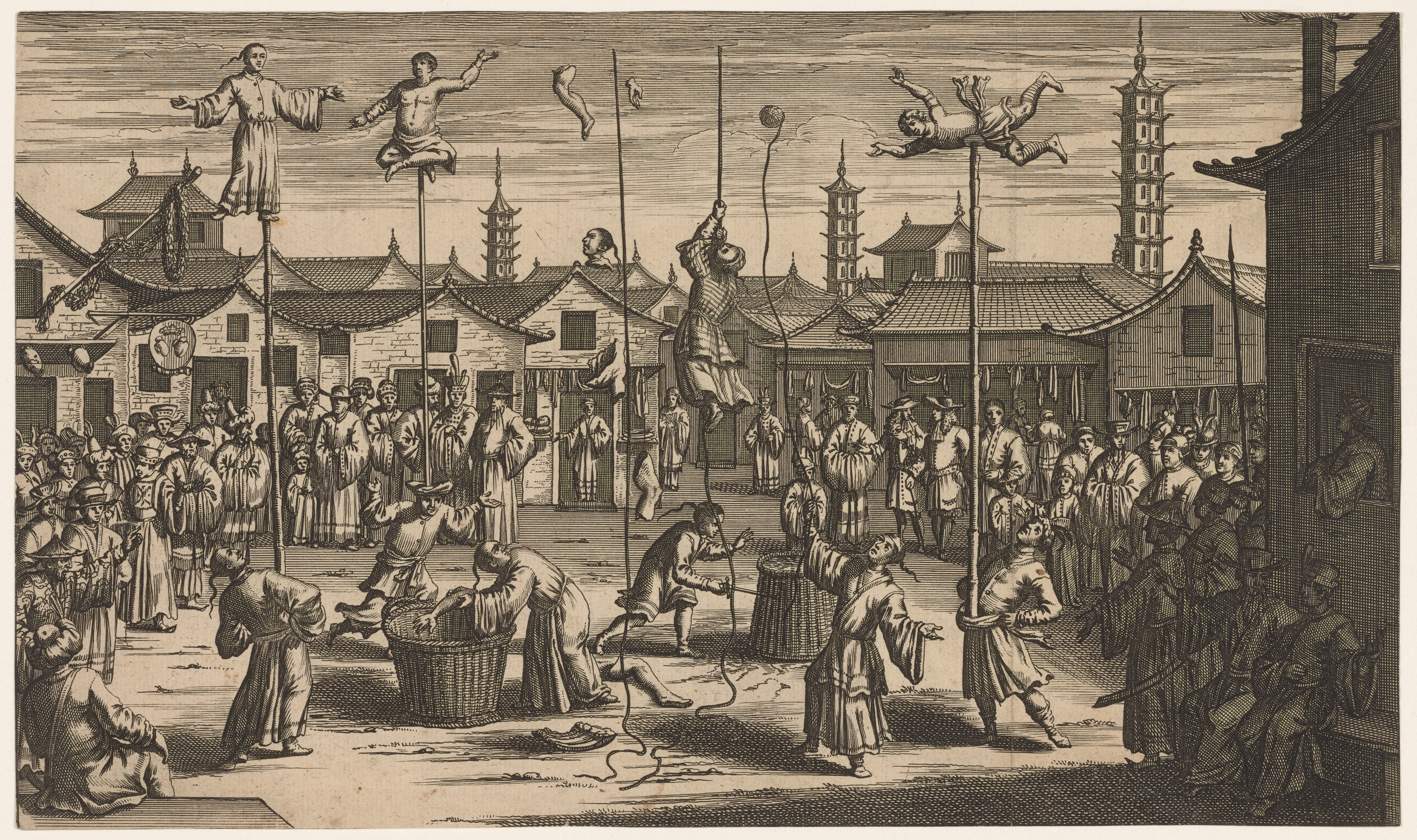 Chinese street entertainers